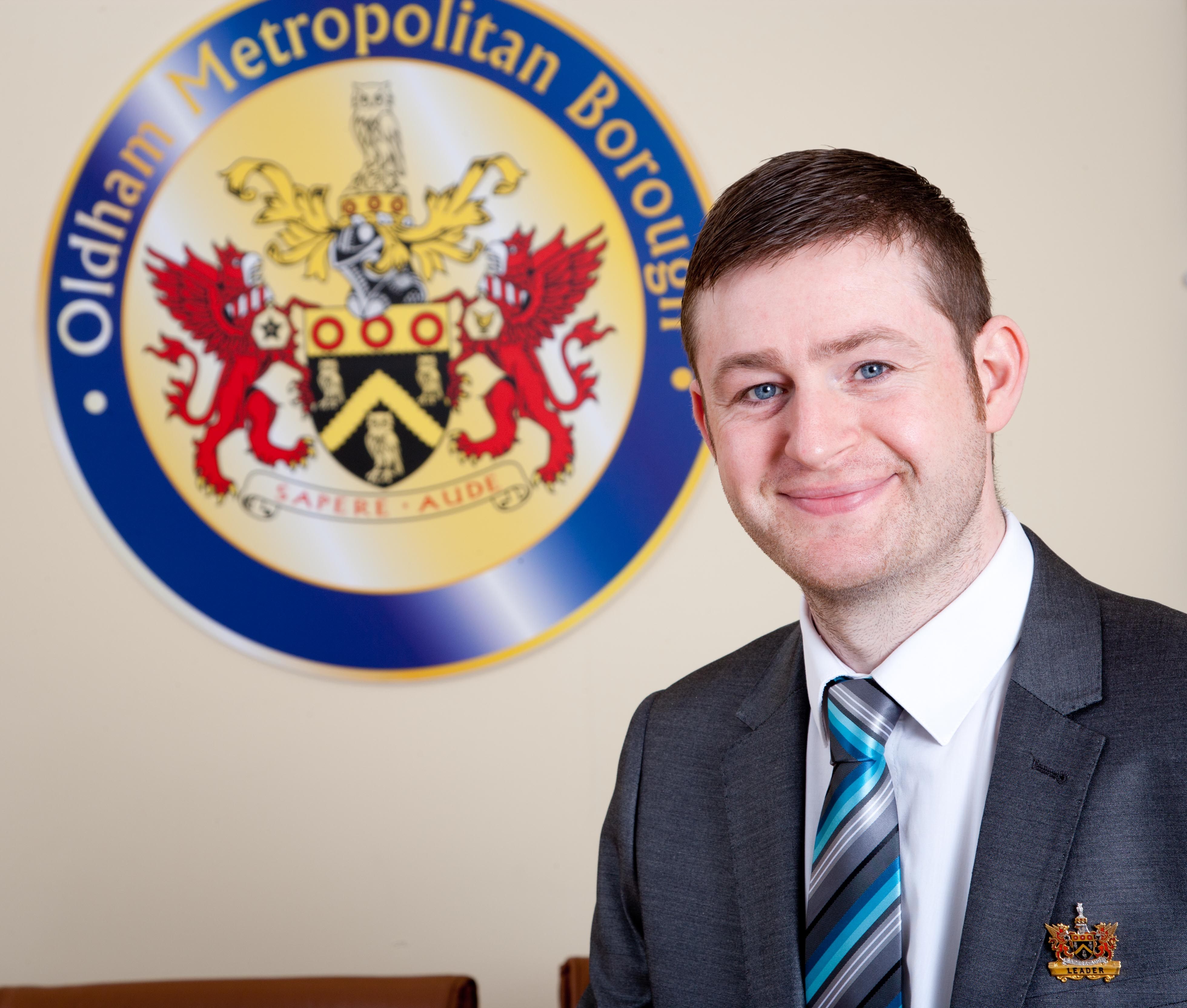 Cllr Jim McMahon